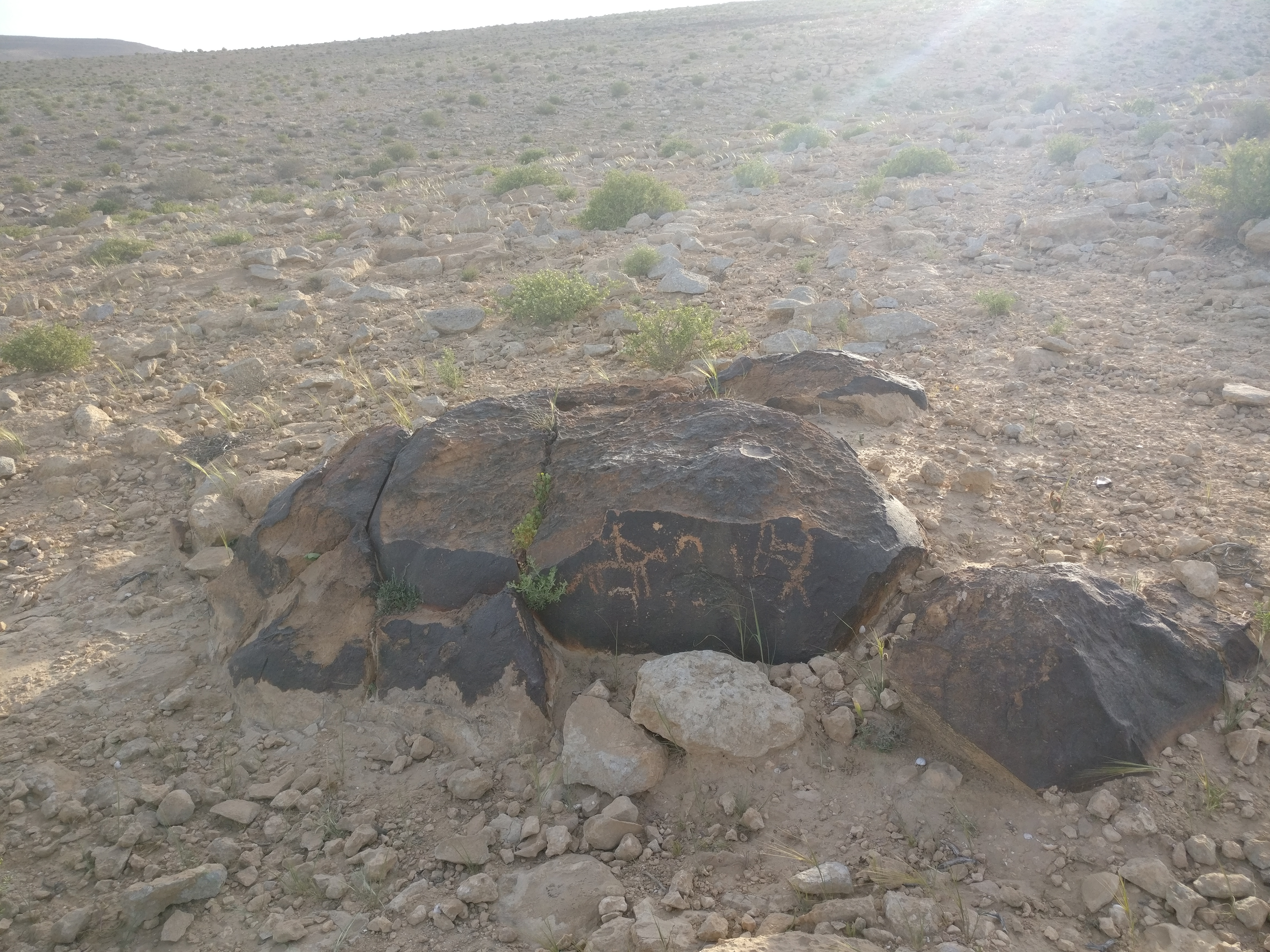 Petroglyphs at Mehia mount Israel - rider and hunter